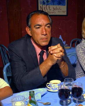 Local call number: PR21822a Title: Actor Anthony Quinn at an unidentified restaurant: Fort Lauderdale, Florida Personal Author: Erickson, Roy. Date: 19--. Physical descrip: 1 photonegative: color; 60 mm. Series Title: (Print Collections. N2006-13, Roy Erickson collection.) General note: The photographer, Roy Erickson, was a professional photographer in the Ft. Lauderdale area and was affiliated with the Best of Broward magazine for over 10 years. Repository:State Library and Archives of Florida, 500 S. Bronough St., Tallahassee, FL 32399-0250 USA. Contact: 850.245.6700. Persistent URL:[1]